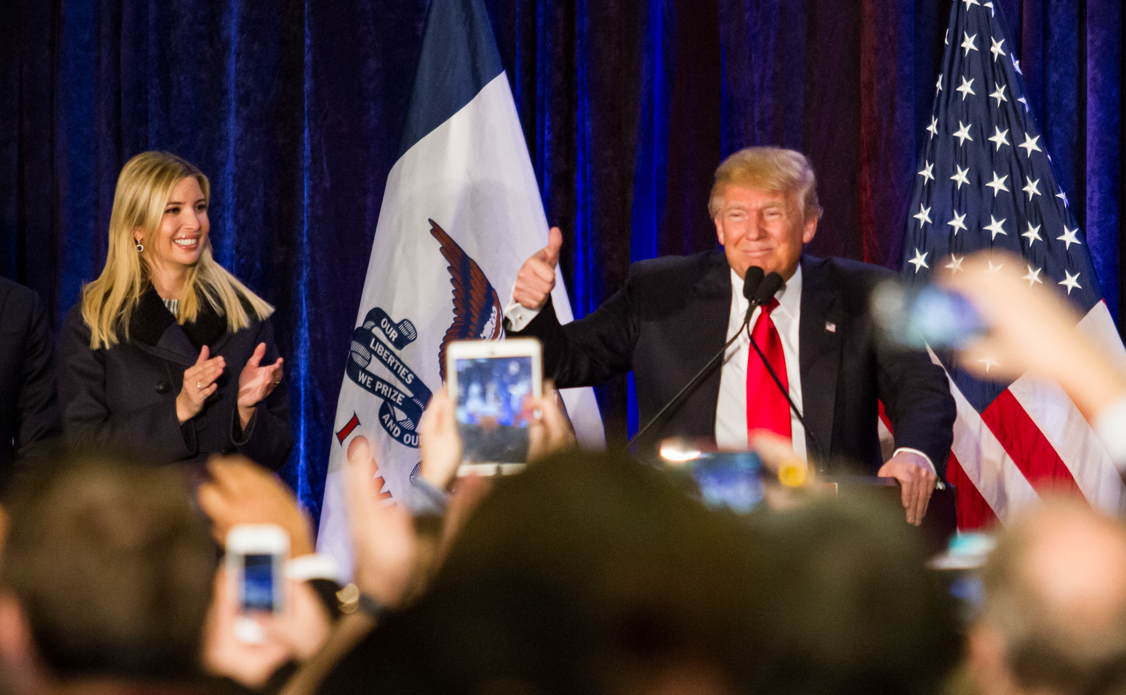 After securing his place in the top three in the Republican caucuses, presidential candidate Donald Trump spoke briefly to a crowd a watch party, Feb 2 in West Des Moines. Trump said, "I love you people, I love you people, thank you very much."